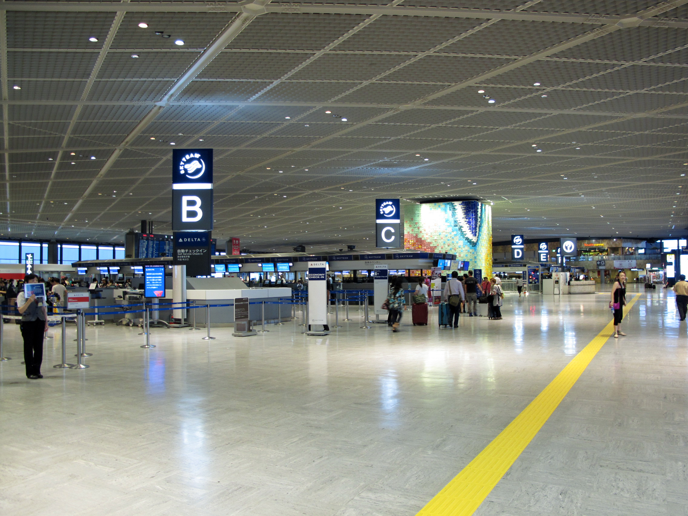 Narita International Airport T1 Departure